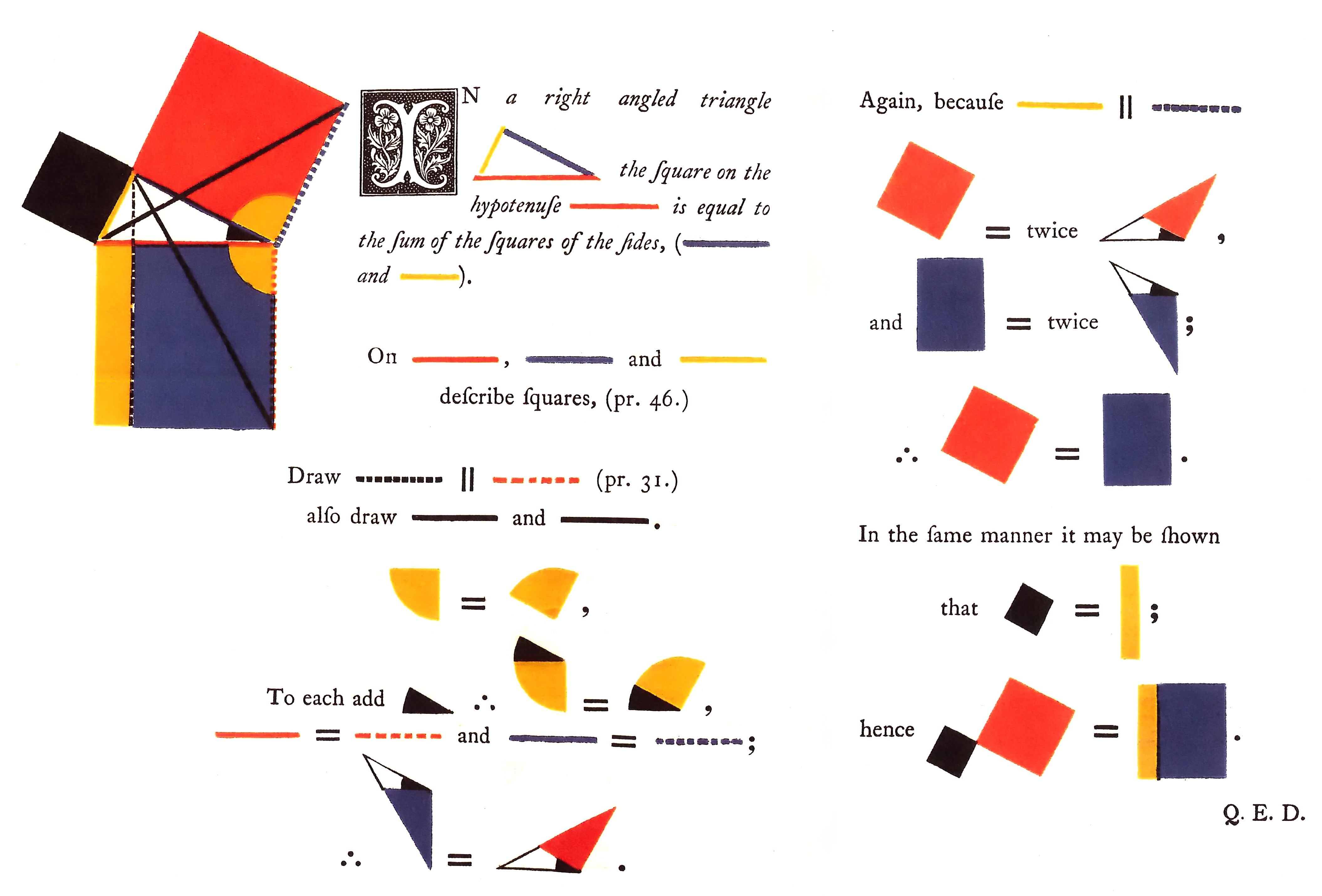 Oliver Byrne illustrated the work of Euclid